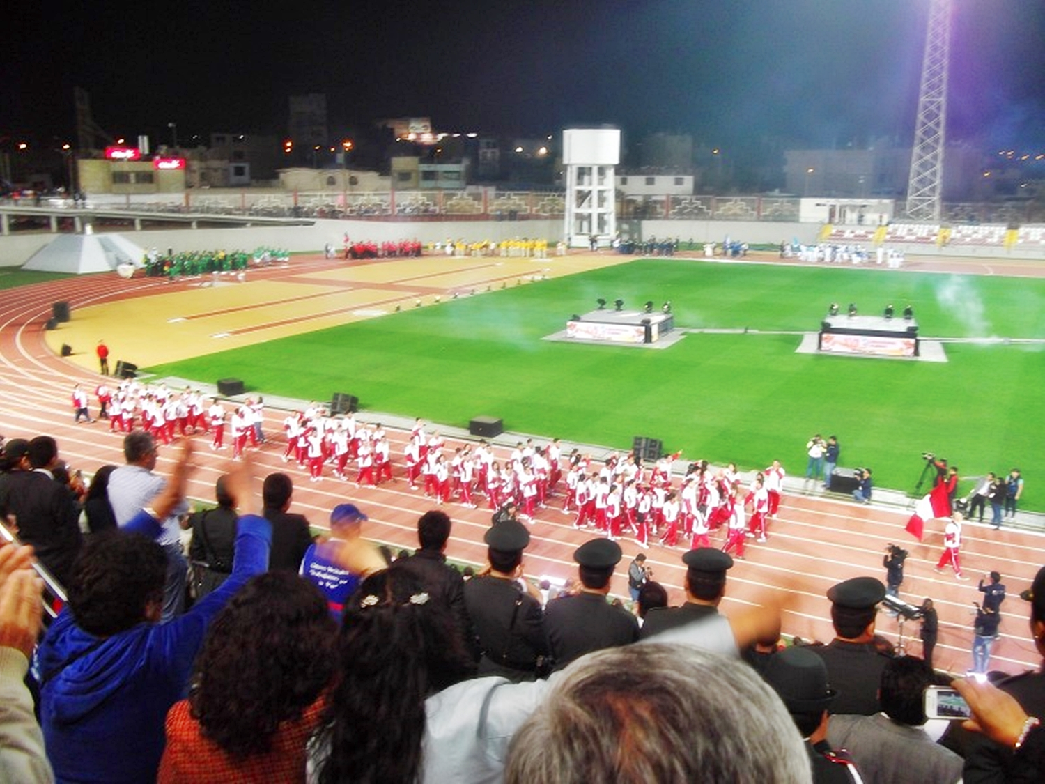 Inauguración XVII Juegos Bolivarianos Trujillo 2013